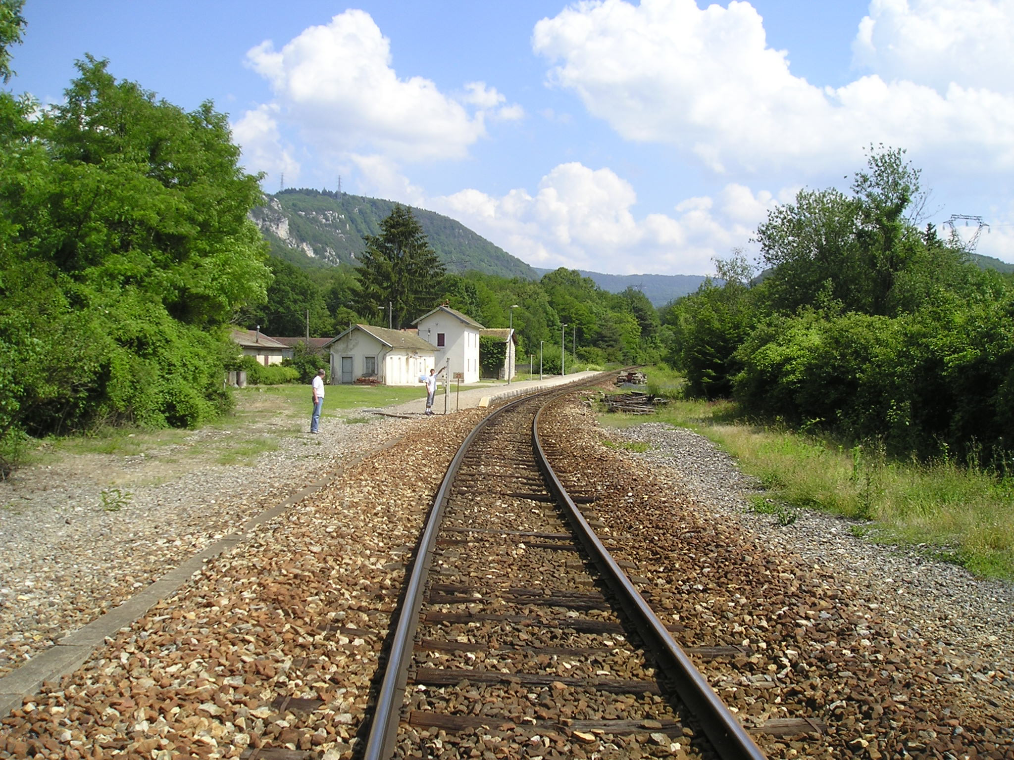 Railroad station of Cize-Bolozon